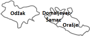 A map showing the municipalities of the Posavina Canton.